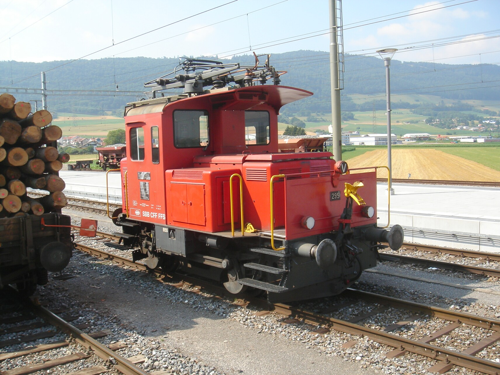 SBB hybrid Tem II 295 with rod drive at Glovelier railway station